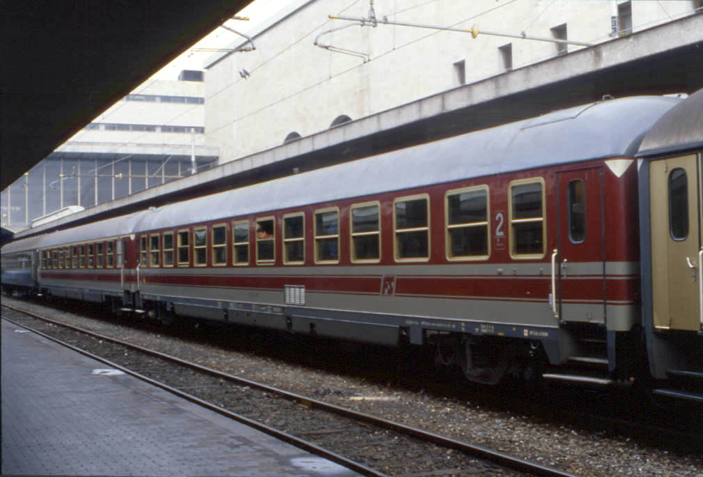 UIC-X-Wagen of the Trenitalia